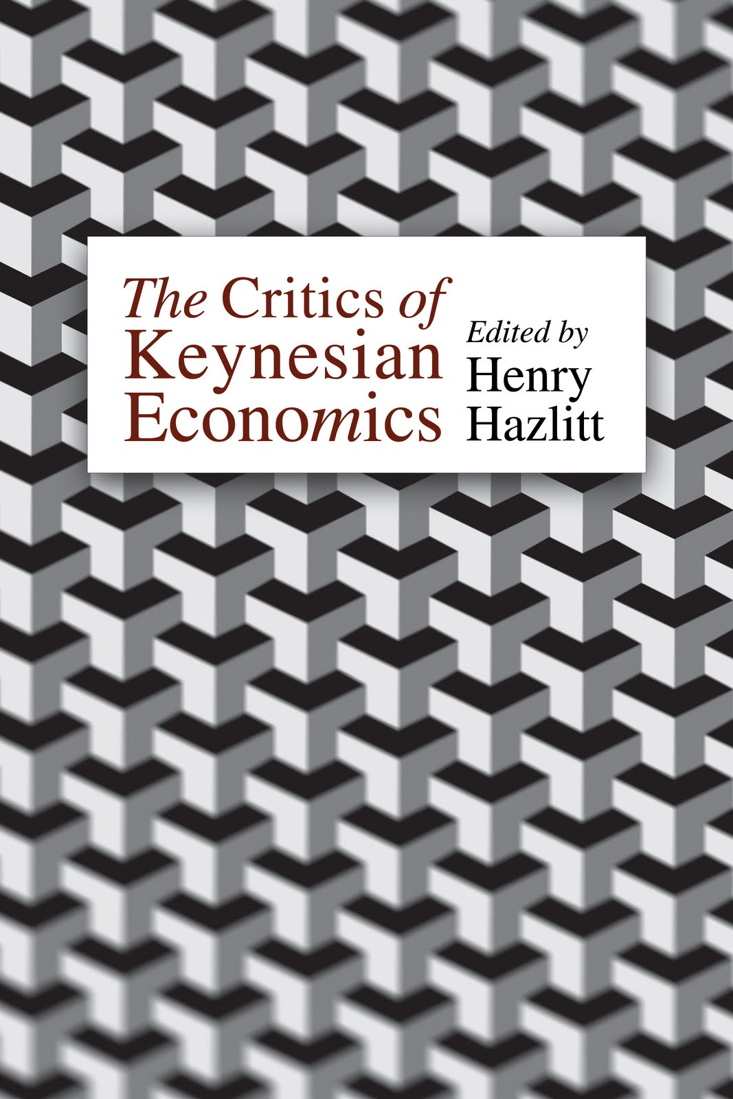 Cover of the scholar's edition of Human Action by Henry Hazlitt